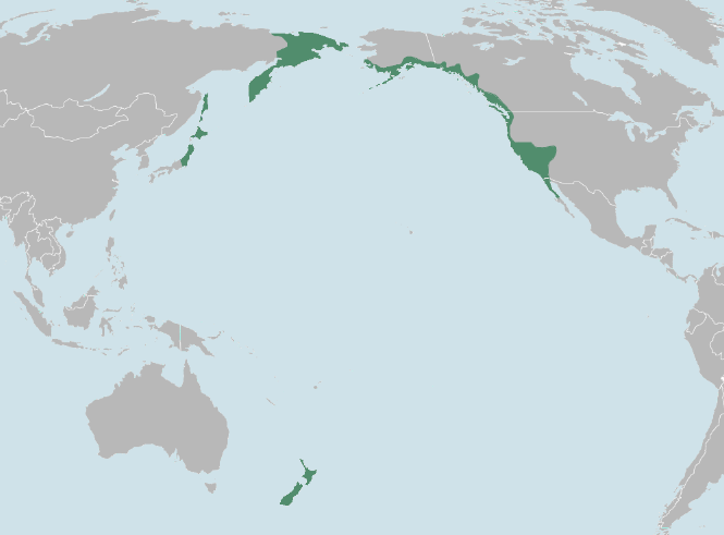 Chinook salmon, Oncorhynchus tshawytscha, distribution map. Based on FAO data.